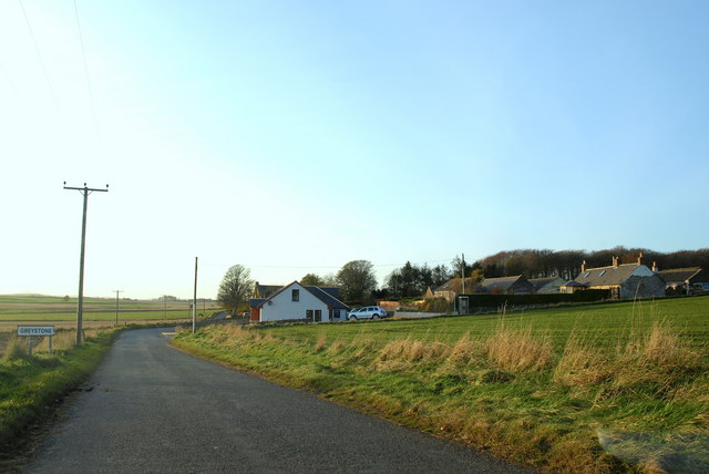 Greystone Village